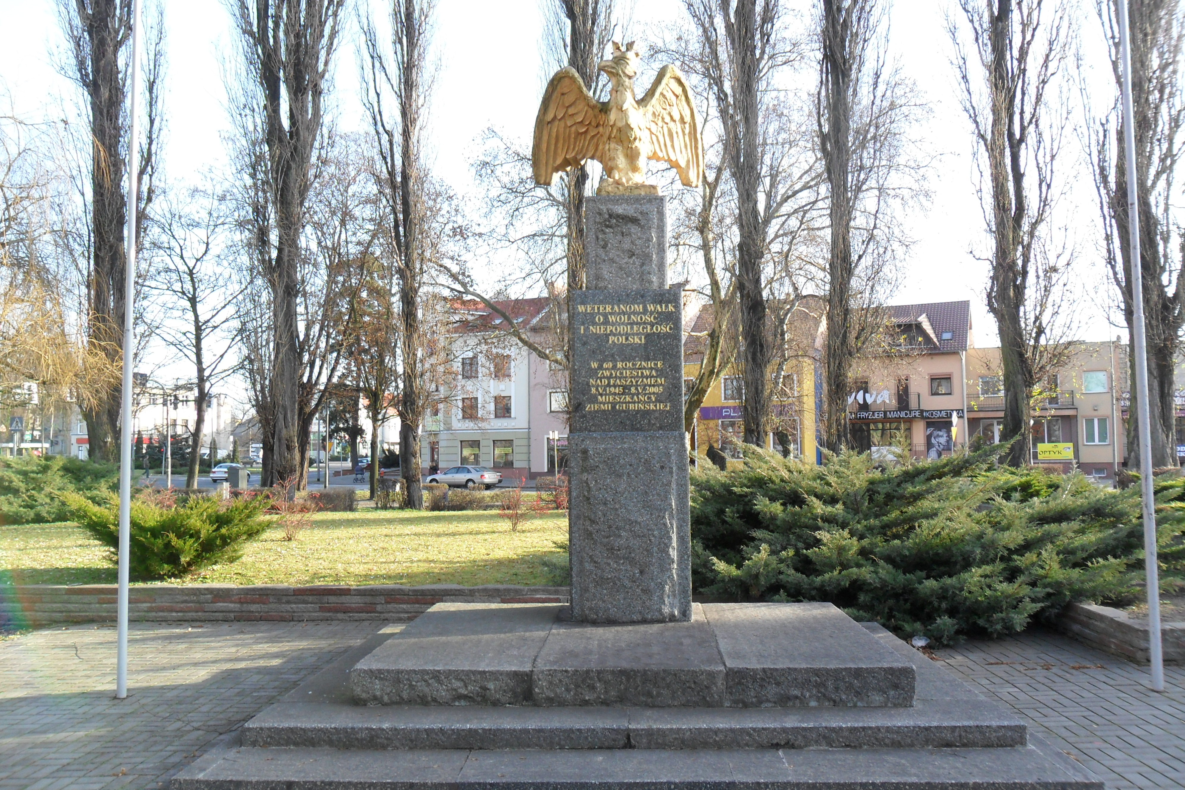 Monument of Remembrance